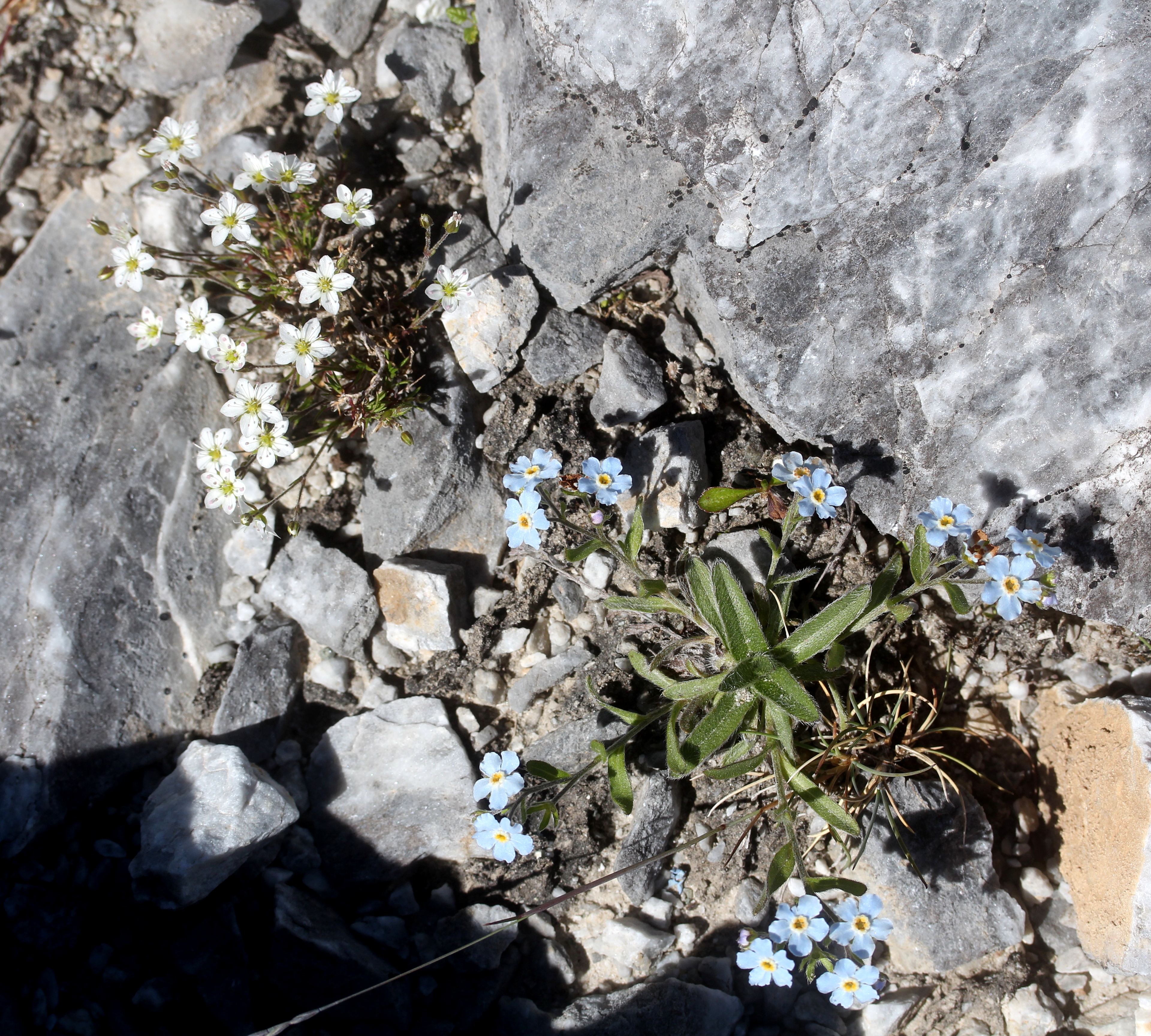 Eritrichium nipponicum and Minuartia verna var. japonica in Mount Shiroumayari, Hida Mountains, Hakuba, Nagano Prefecture, Japan.